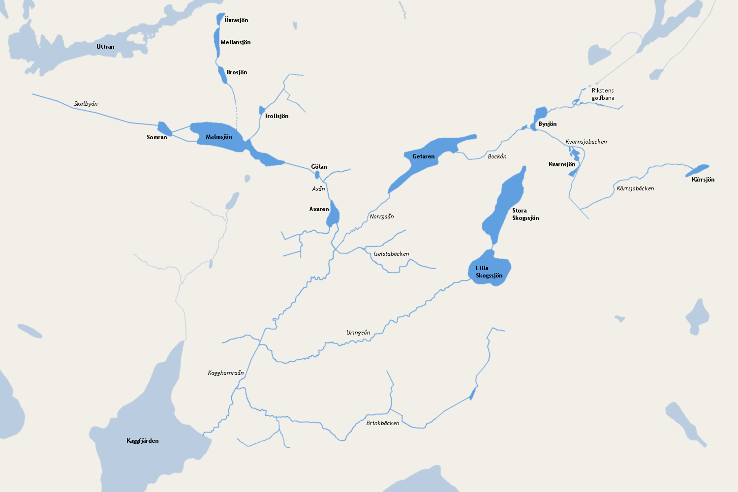 Map over Kagghamraån drainage basin. Name of lakes are in bold and streams in italics. Dashed blue lines are streams under ground